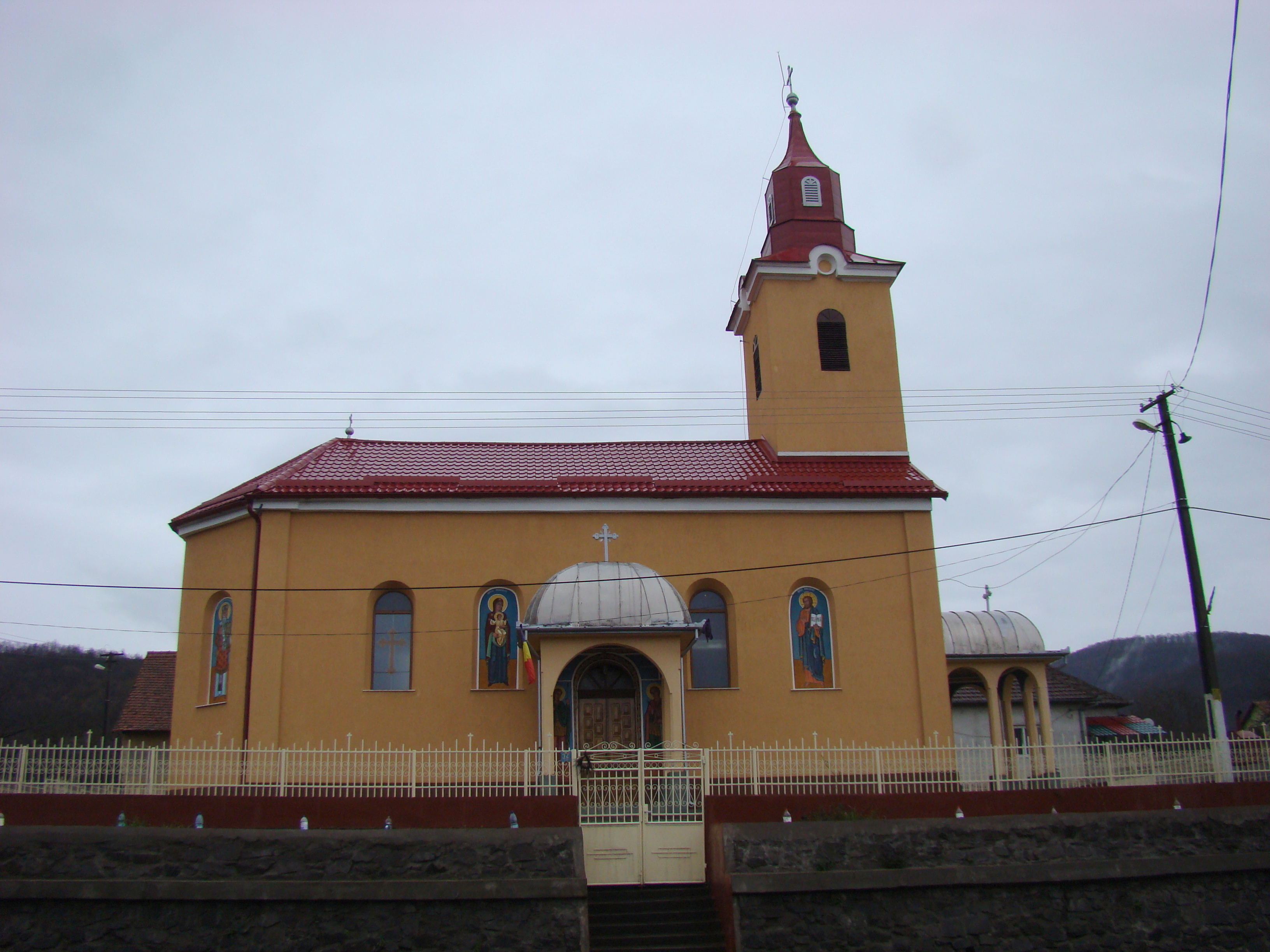 Joia Mare, Arad county, Romania